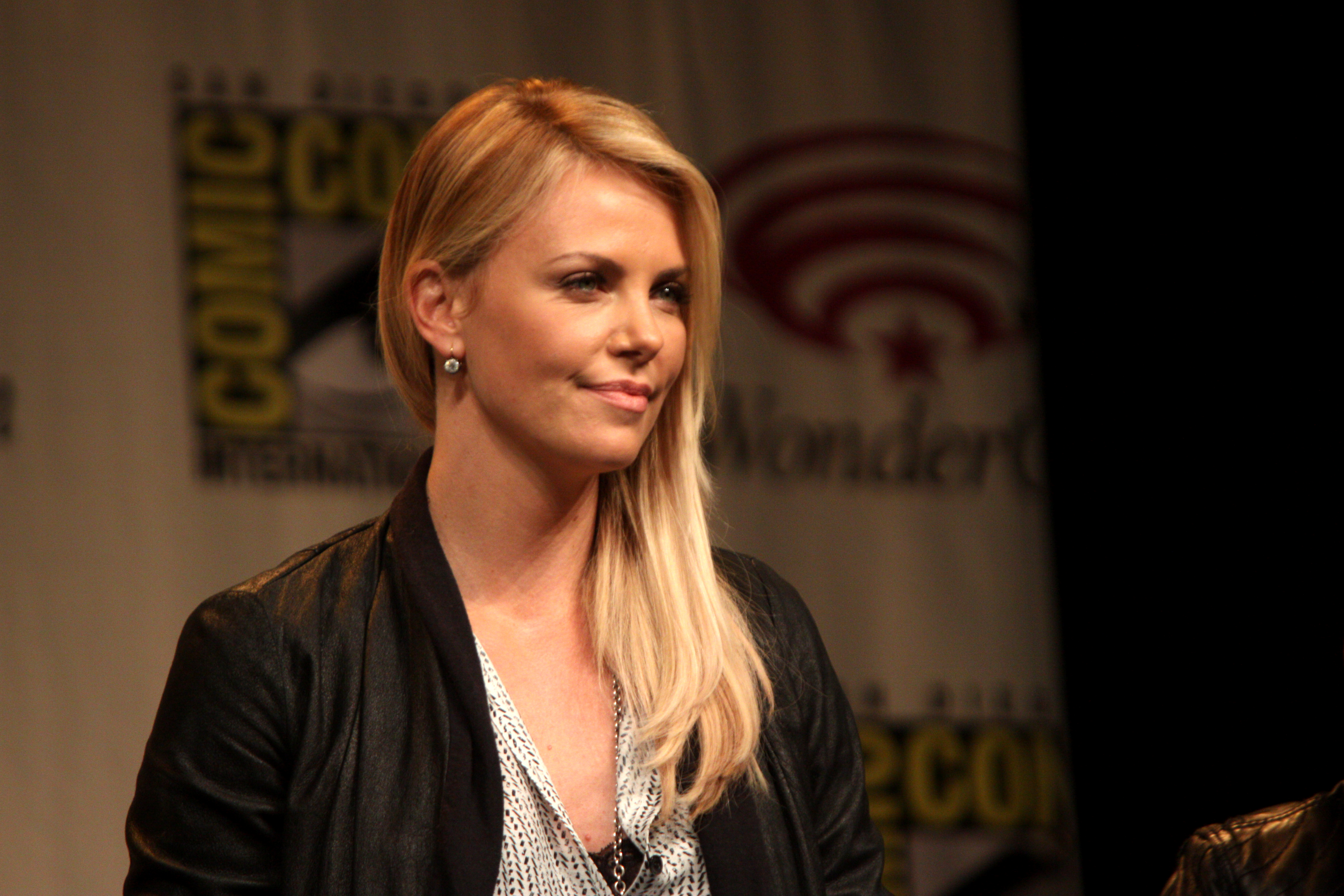 Charlize Theron speaking at the 2012 WonderCon in Anaheim, California.